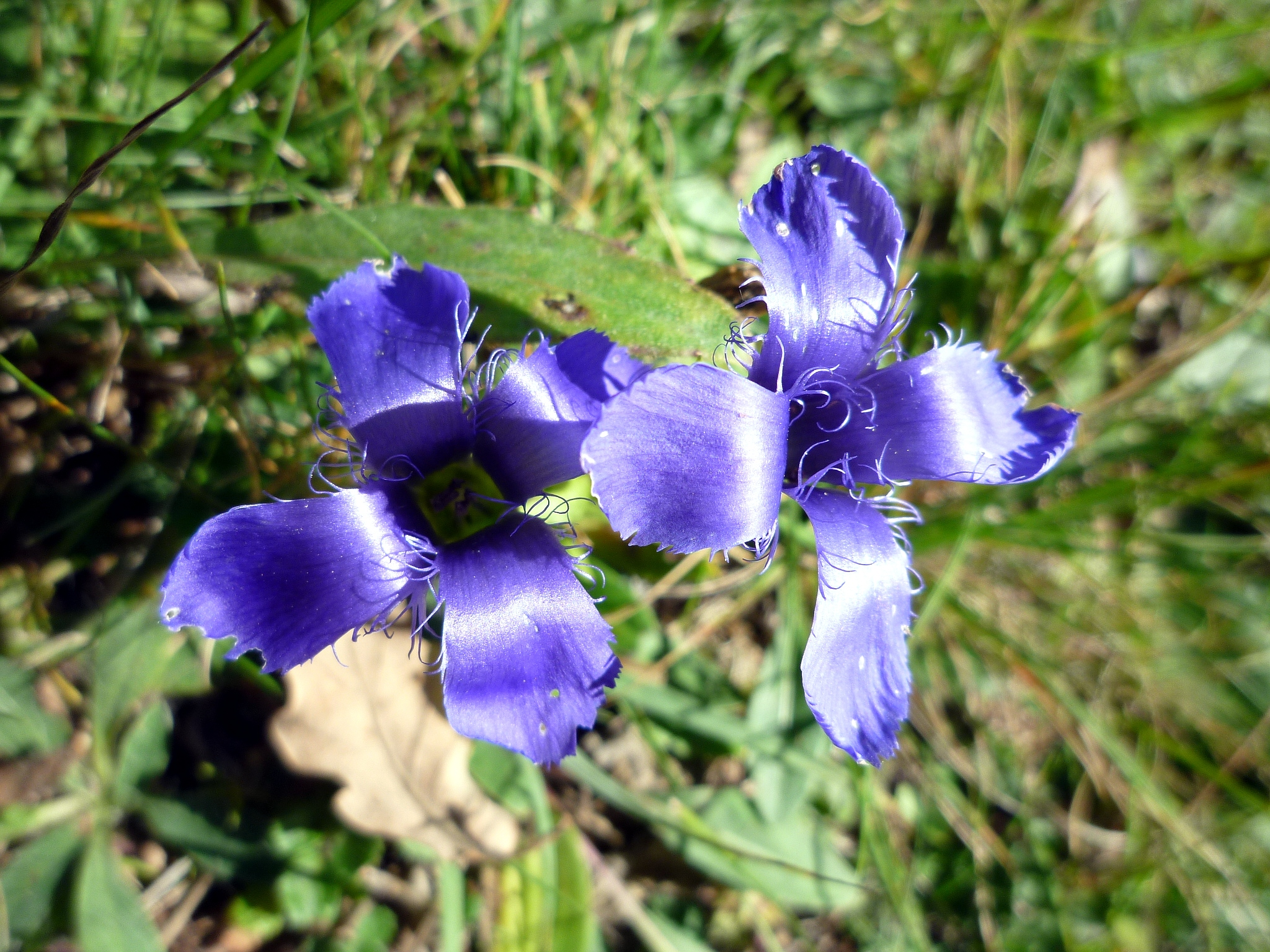 Gentiana ciliata. In Serrat de la Matella of Gósol (Berguedà - Catalunya). To 1.550 m. altitude